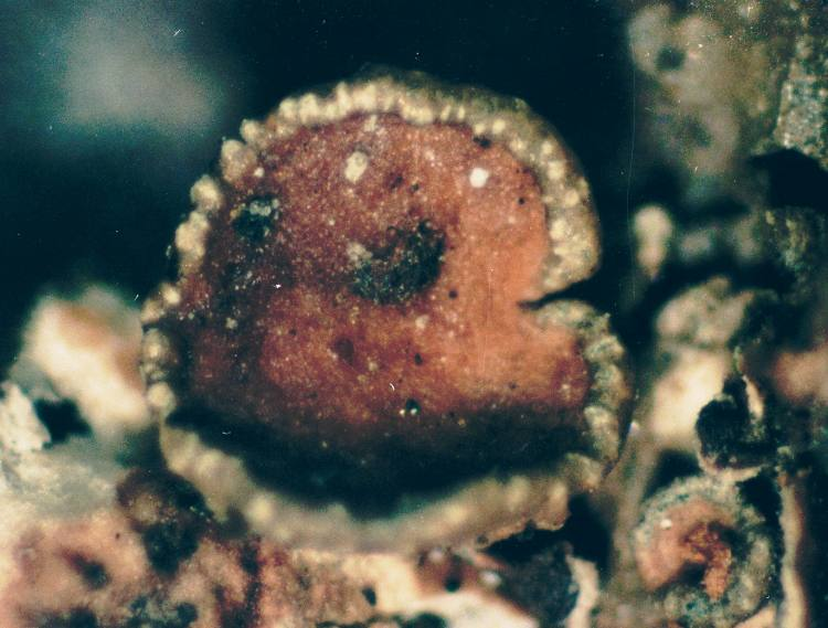 Melanohalea olivacea (L.) O. Blanco, A. Crespo, Divakar, Essl., D. Hawksw. & Lumbsch (photograph of herbarium specimen showing close-up of an apothecium with white pseudocyphellae on the margin) Growing on dead Paper Birch in coniferous woods along the shores of Lake Superior in Neys Provincial Park, Thunder Bay District, Ontario, Canada; collected and identified by Richard E. Riefner (No. 81-609, 2 Aug 1981); specimen is now in the Lichen Herbarium of the New York Botanical Garden.